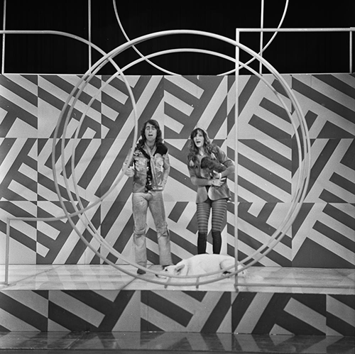 Seemon & Marijke in AVRO's TopPop (Dutch television show) in 1972